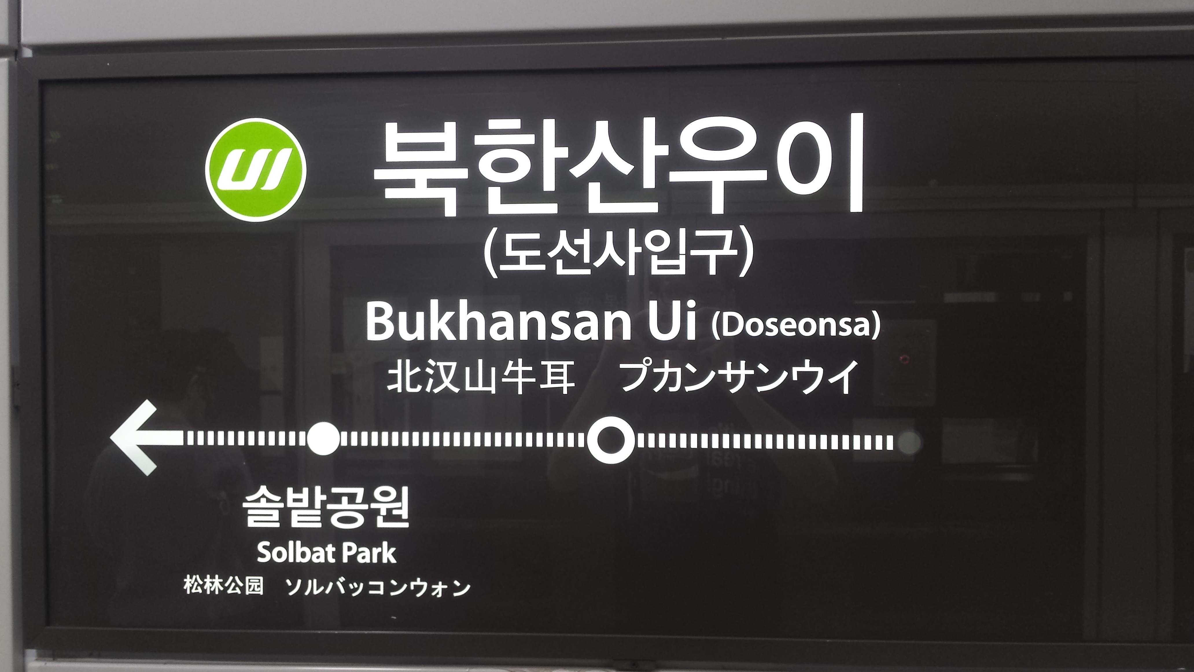 Bukhansan Ui station Sign